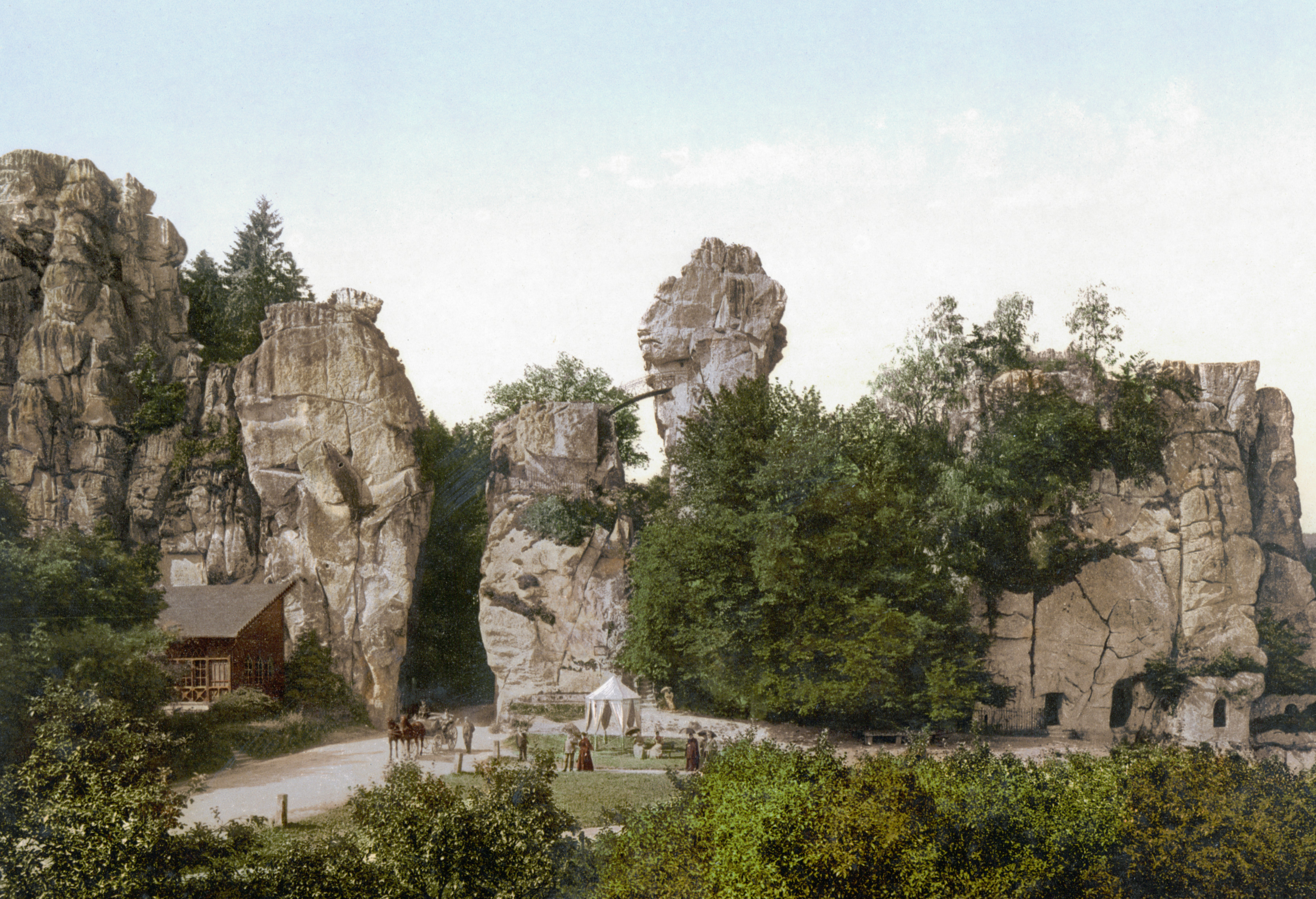 Externsteine in Germany. Photochrom print (color photo lithograph)